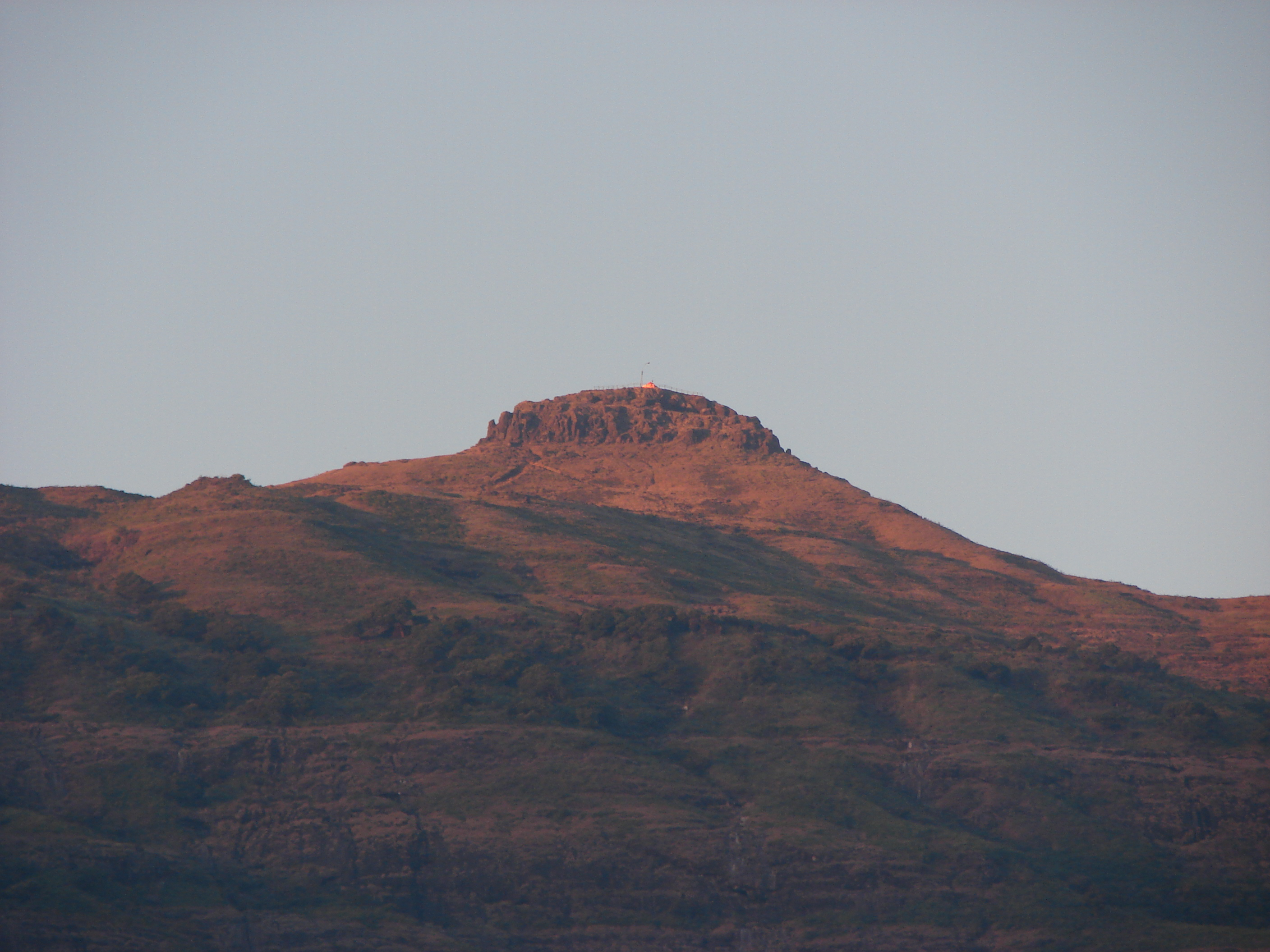 Kalasubai is the tallest peak in Maharashtra state in India